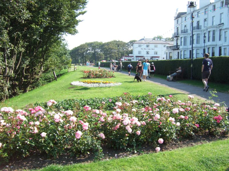 Filey garden, Yorkshire, Great Britain.